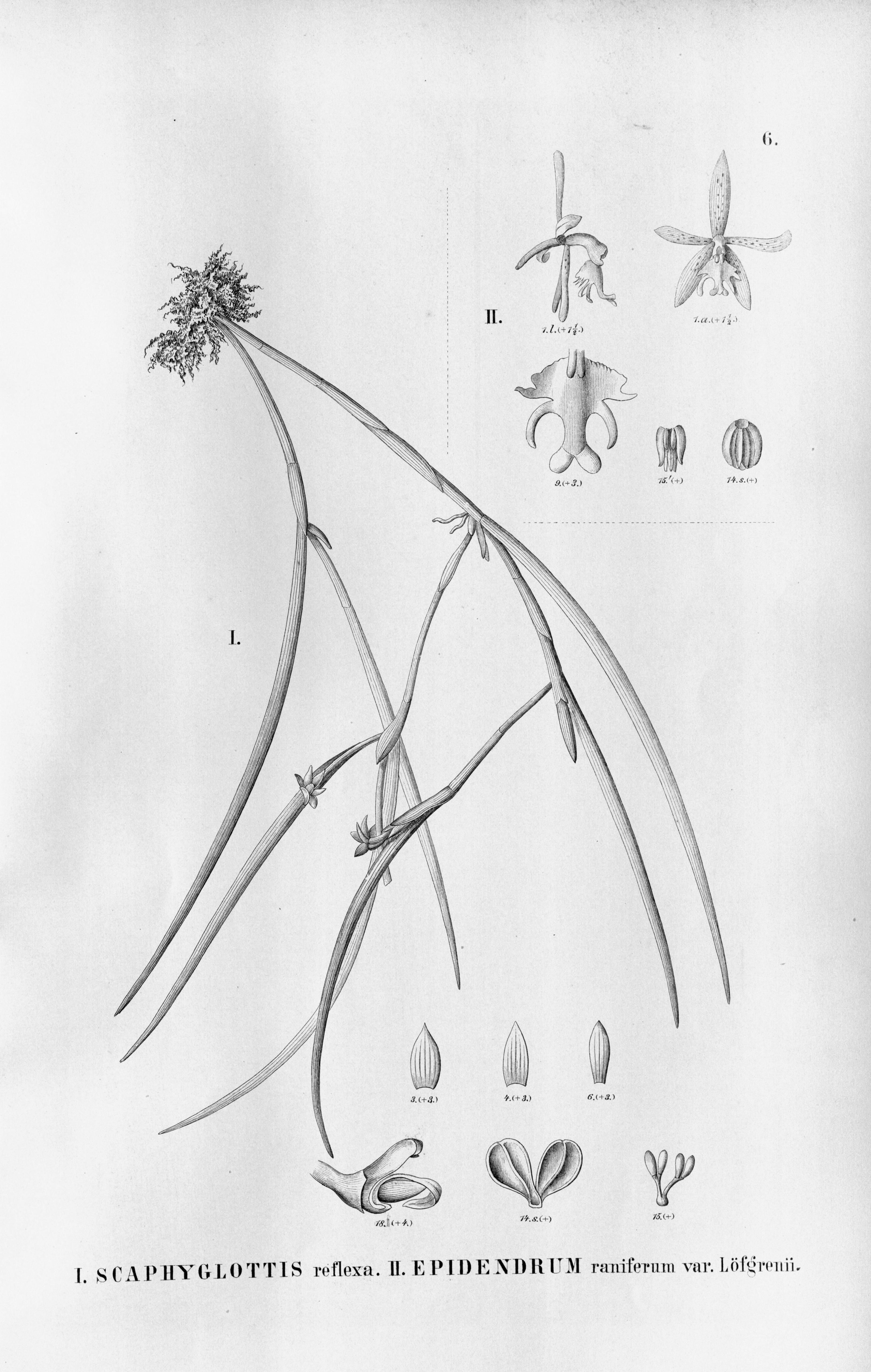 Illustration of Scaphyglottis reflexa (plant) and Epidendrum cristatum (flower, top right) as syn. Epidendrum raniferum var. löfgrenii